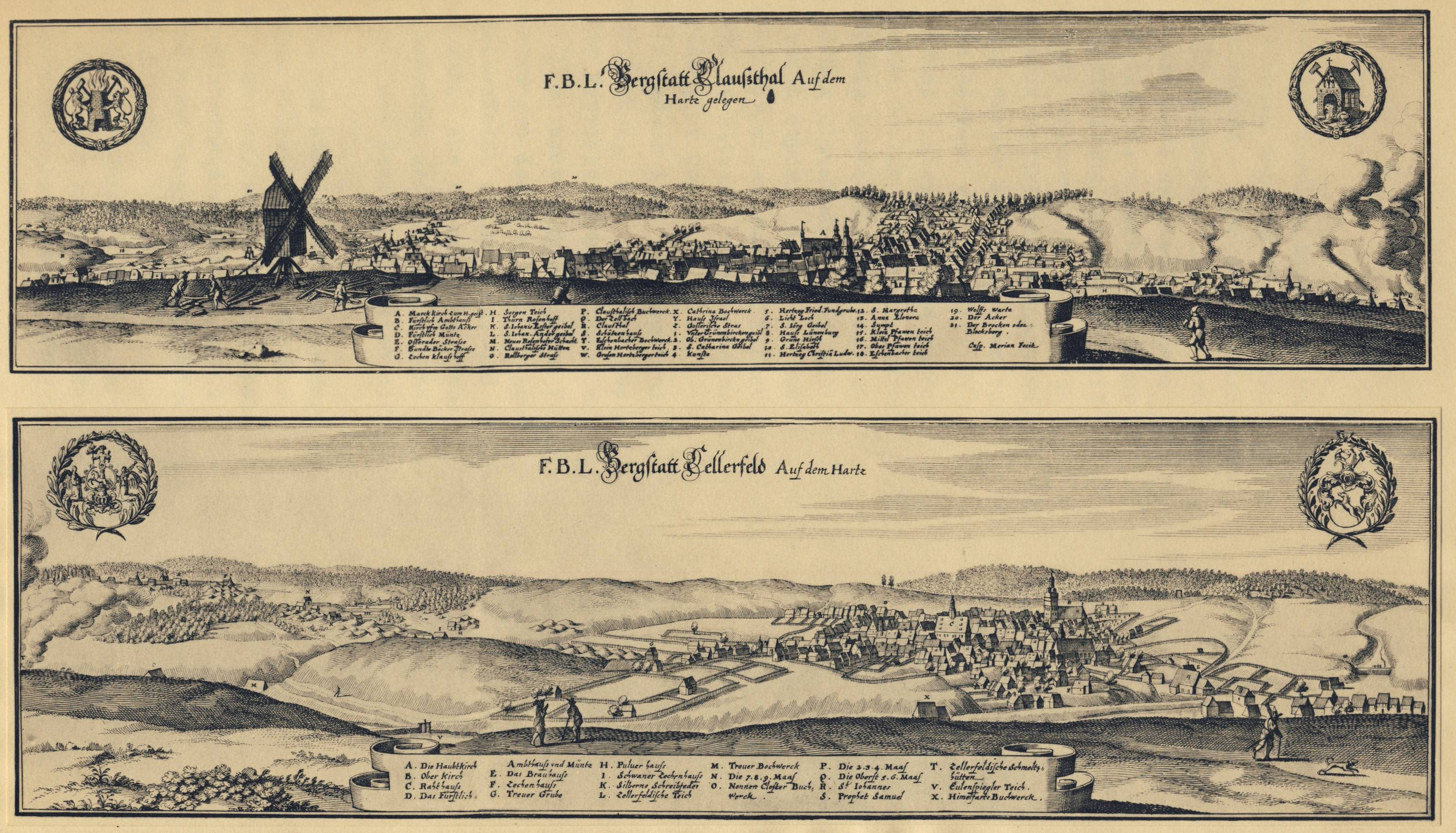 Bergstatt Clausthal Auf dem Hartz gelegen, historical view over Clausthal and Zellerfeld